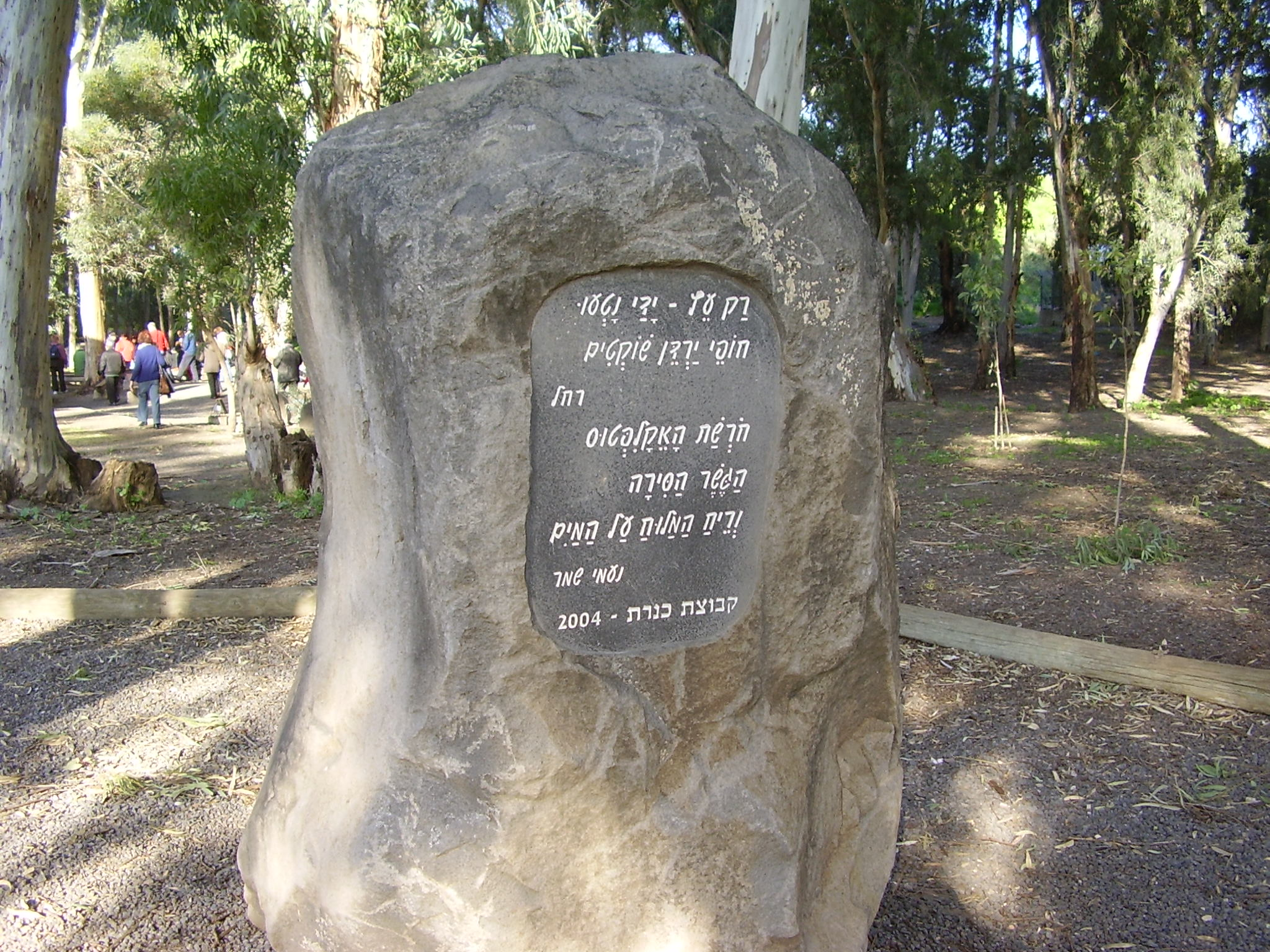 Eucalyptus grove named after the poet Naomi Shemer